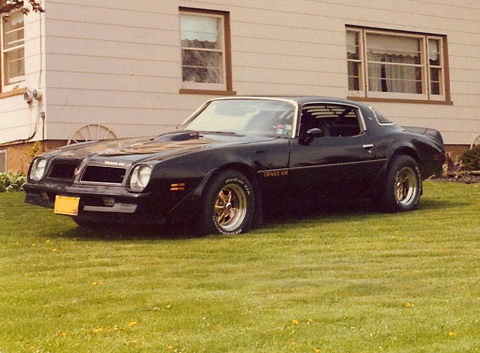 1976 Pontiac Trans Am